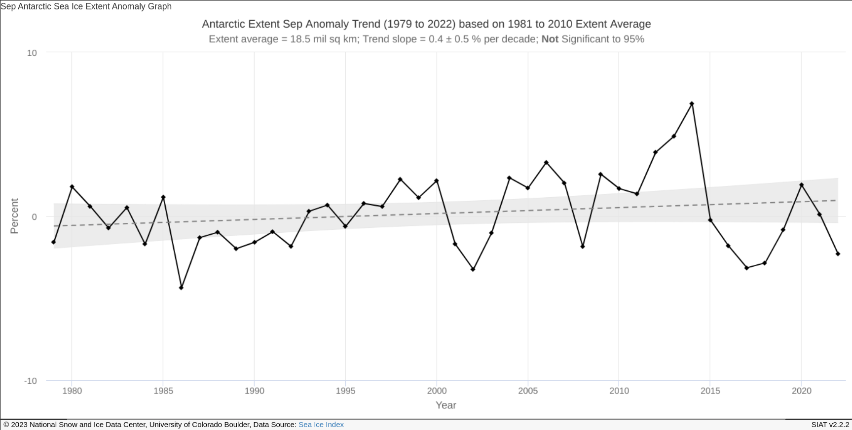 Southern Hemisphere (Antarctic) Sea Ice Extent Anomalies: Ice extent anomalies are plotted as a time series of percent differences between the total extent for the month in question, and the mean for that month, where the mean is based on the January 1979 - December 2000 portion of the data set. The trend, in percent change per decade, is obtained using least squares regression, and a 95% confidence interval for the resulting slope is given.